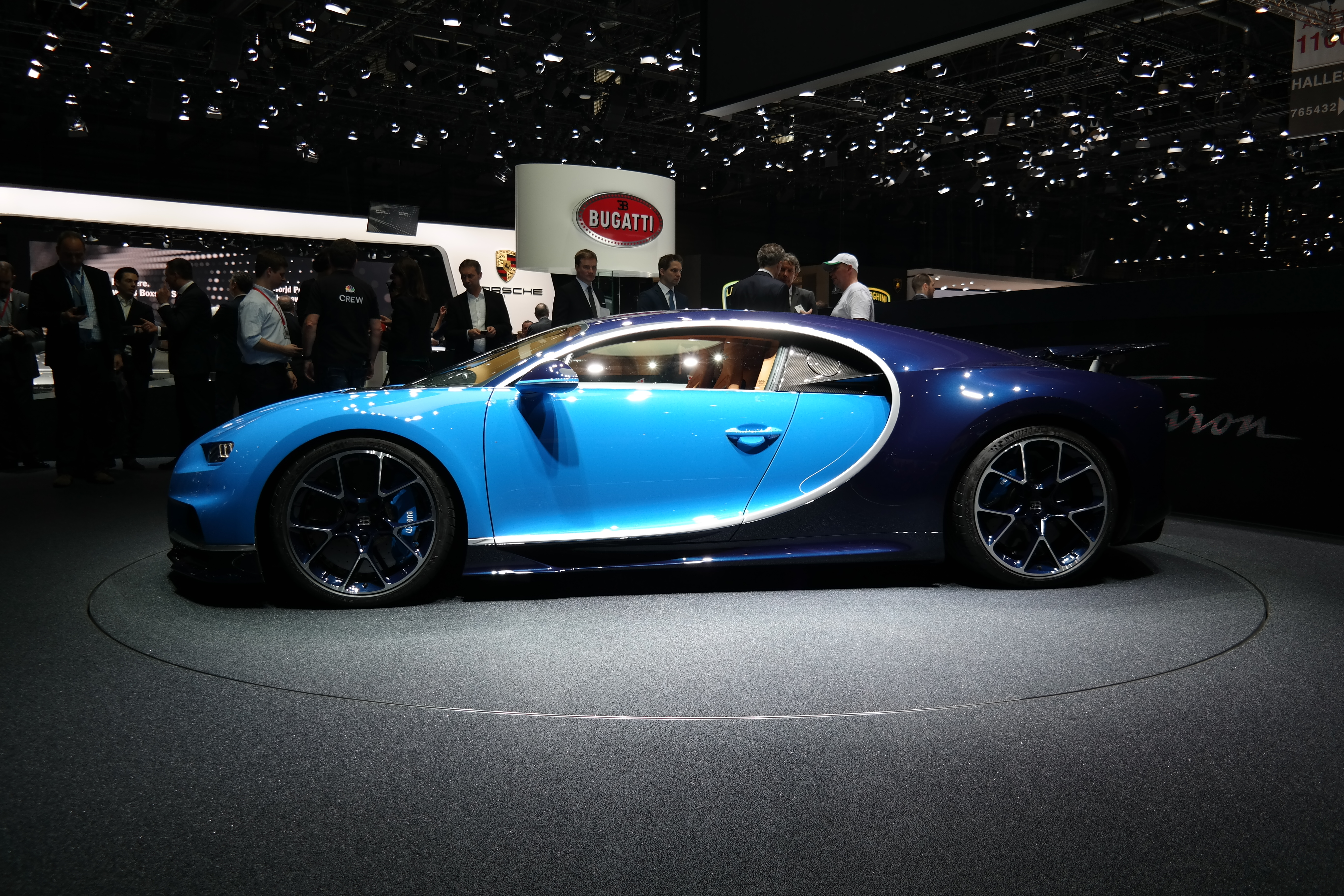 Geneva Motor Show 2016 (photo taken on the first press day)